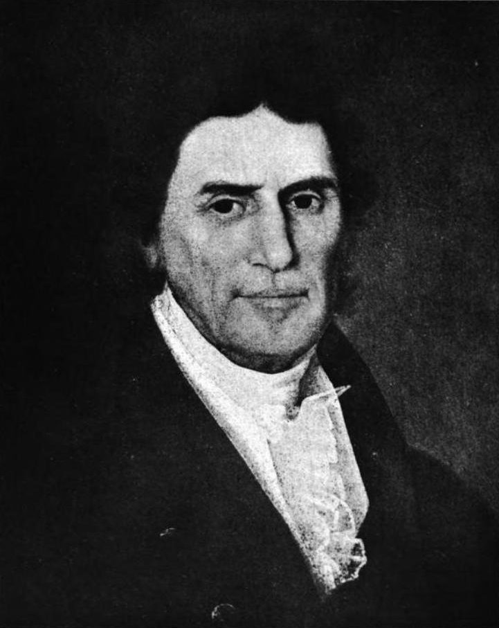 "Richard N. Venable, son of Nathaniel Venable. Richard Venable attended Hampden–Sydney before going to Princeton where he graduated in 1782. Richard N. Venable was a great supporter of Hampden-Sydney College; he served on the Board of Trustees for more than forty years and he, along with his father and brothers, provided considerable financial support to the College during its early years."